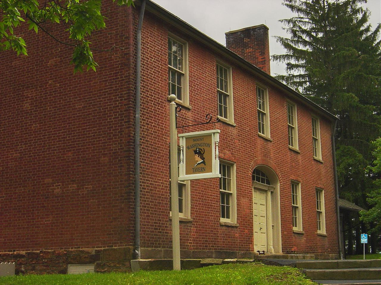 An updated photograph of Mount Washington Tavern at the Fort Necessity National Battlefield, in June, 2009.